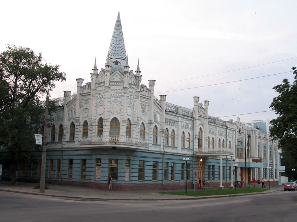 Building of the Slovyanskyi Hotel, now Ukrsotsbank.